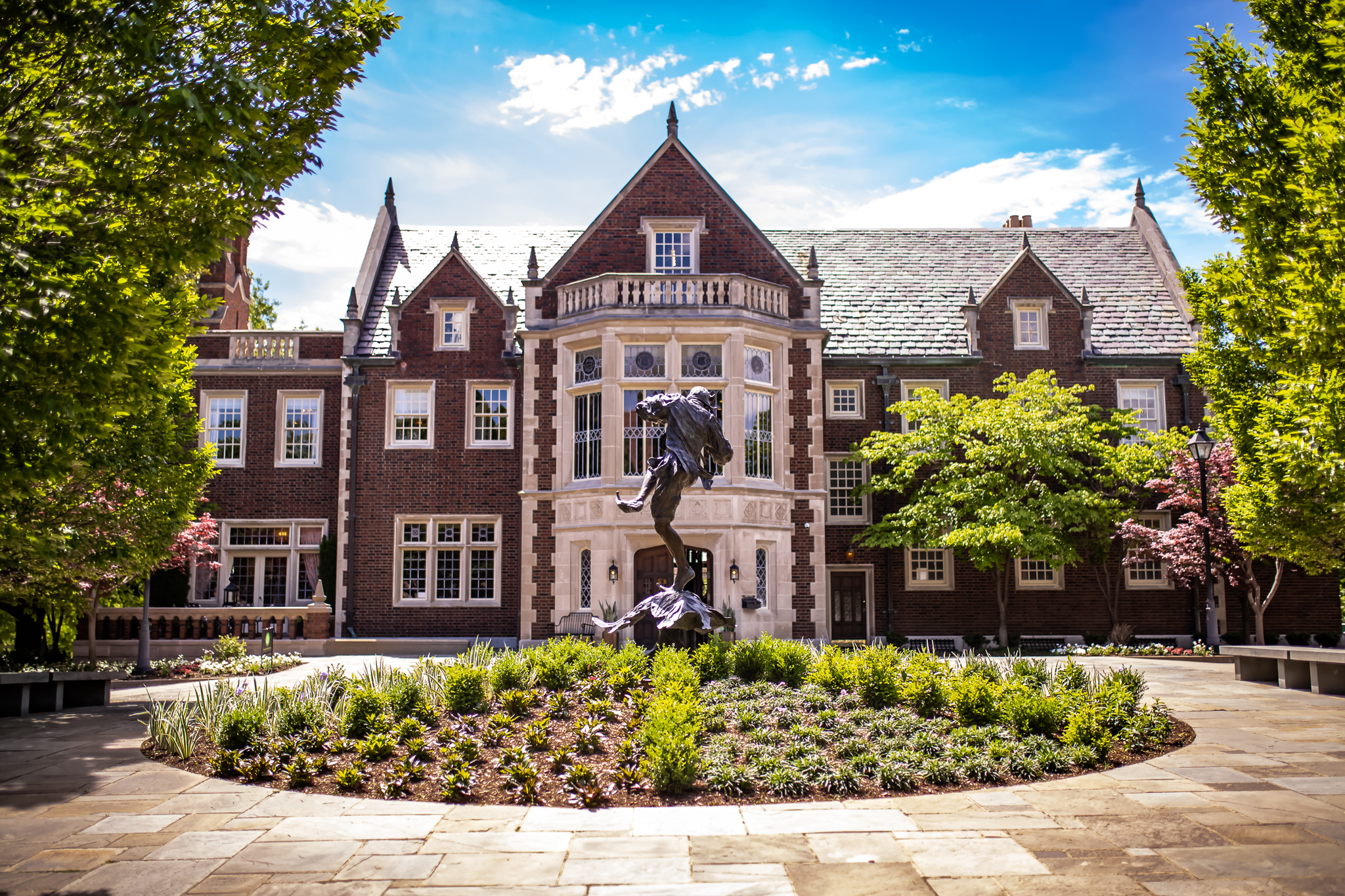 Harwelden